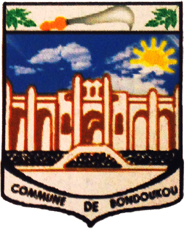 The logo of the city Bondoukou.